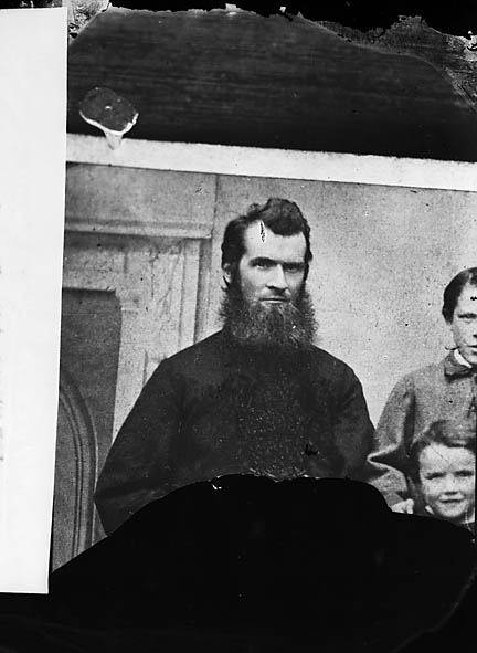 1 negative : glass, wet collodion, b&w ; 11 x 8.5 cm.